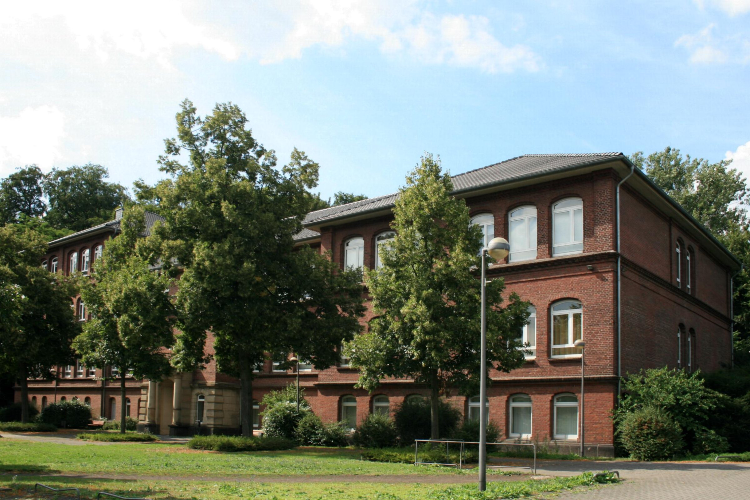 Cultural heritage monument No. L 012 in Mönchengladbach